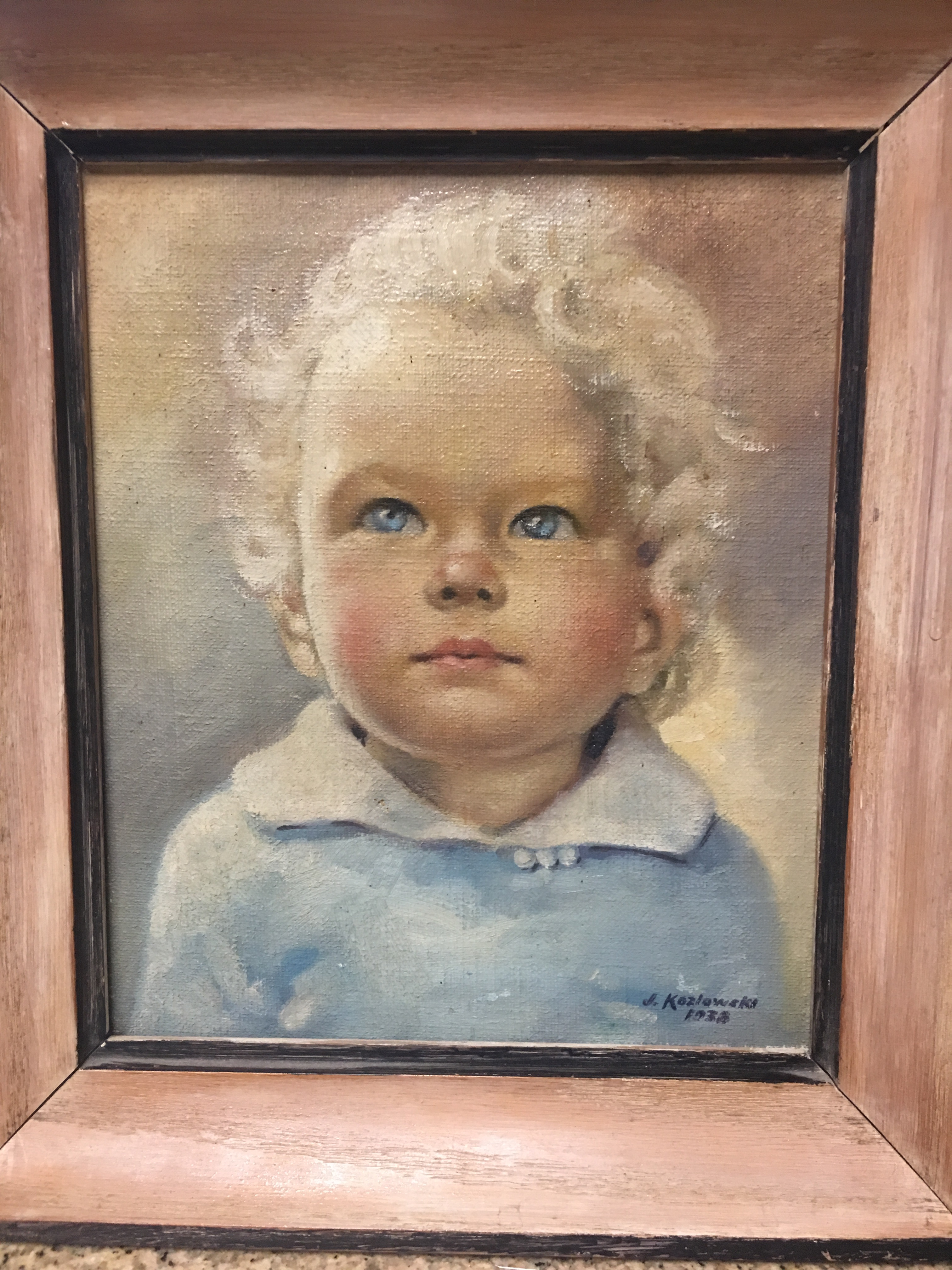 Portrait of Yvonne, Lucie's daughter in Yucatan 1938